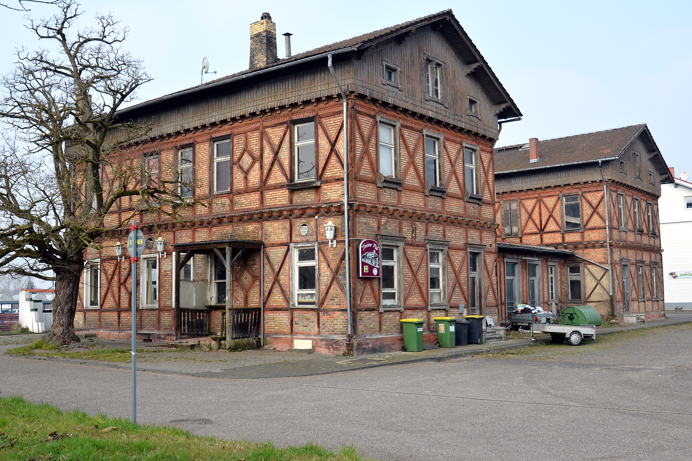 Former station of Germersheim